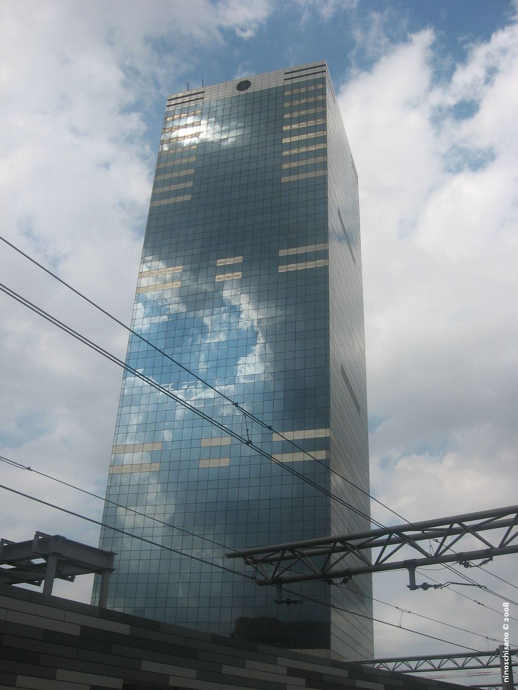 South Tower (Tour du Midi) in Brussels